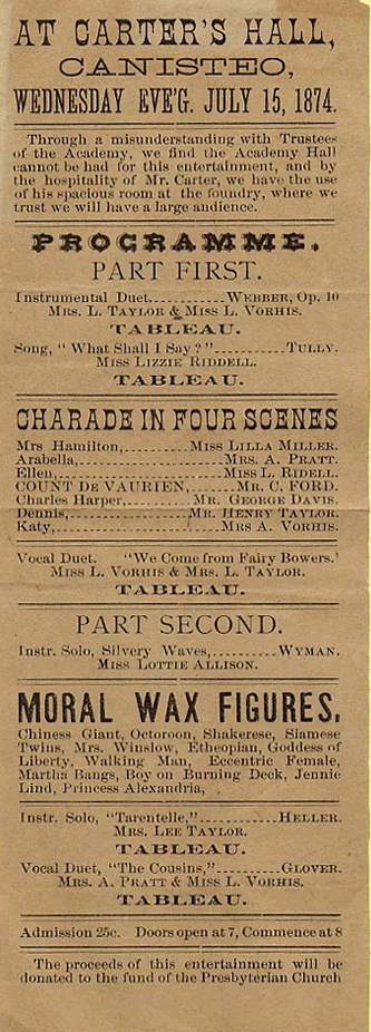 Due to the unavailability of the hall at the Canisteo Academy, this "entertainment" was held at the Carter foundry, later the Canisteo Steam Power Company.